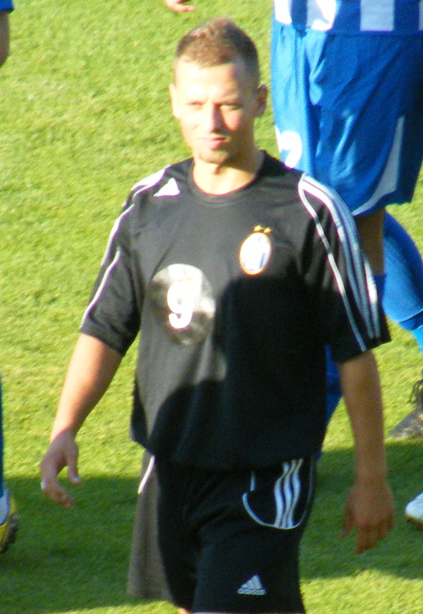 Sebino Plaku Albanian football player